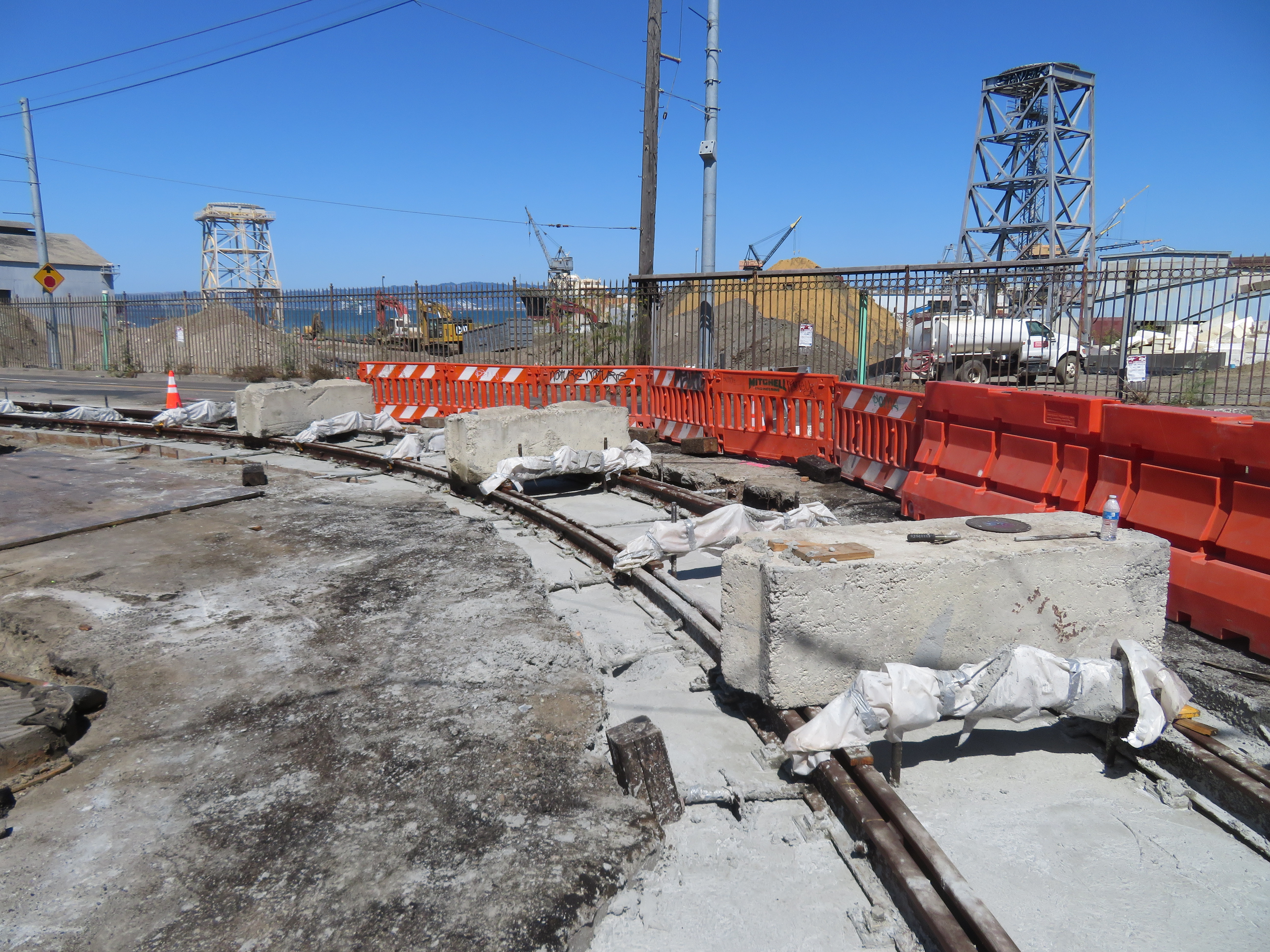 Construction of the Mission Bay Loop in August 2019